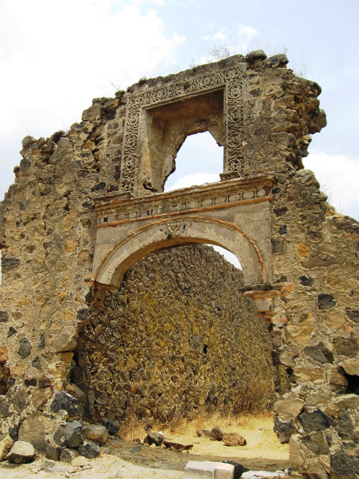 Entrance to the remains of the old Franciscan monastery in Ayapango, Mexico State, Mexico